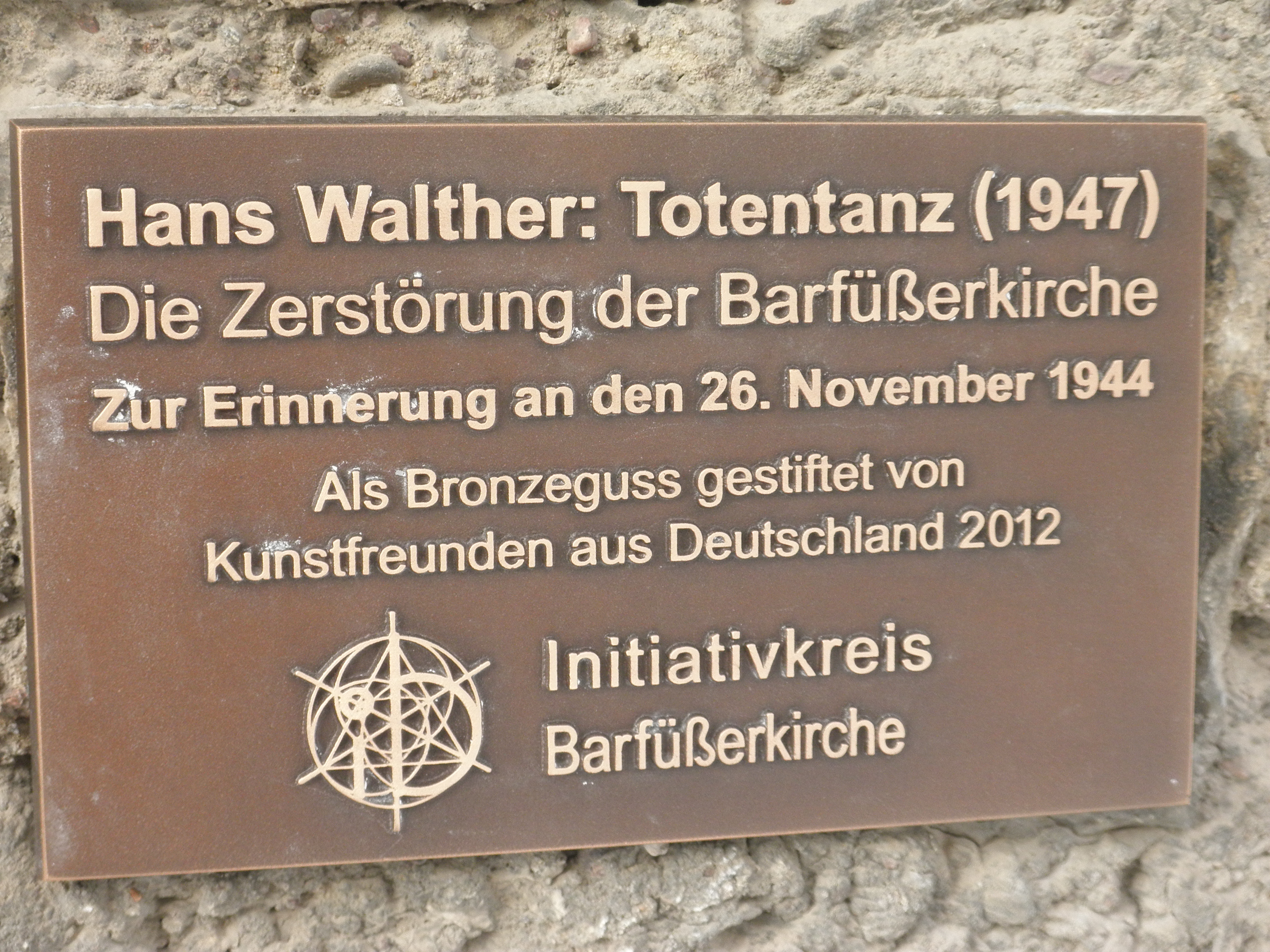 Relief Totentanz (Hans Walther 1947) at Barfüßerkirche in Erfurt in Thuringia